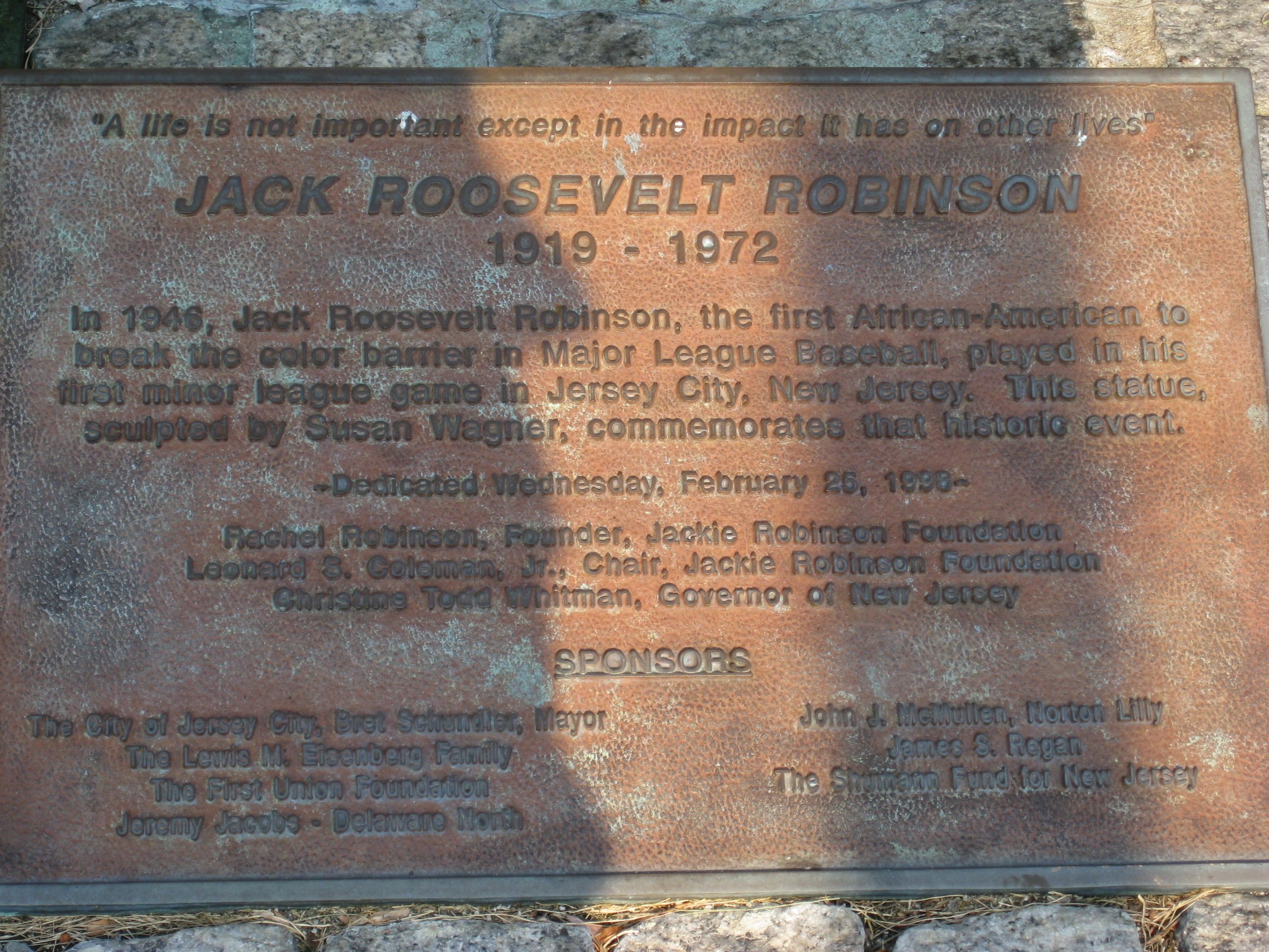 Picture of the plaque beside the statue of Jackie Robinson at Journal Square, Jersey City, NJ